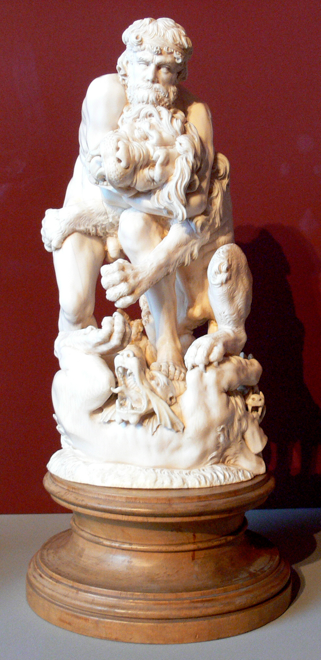 Christoph Maucher: Hercules as the Conqueror of the Lernean Hydra and the Nemean Lion, before 1695, ivory. Skulpturensammlung (Inv. no. 726, from the Royal „Kunstkammer“ collection), Bode-Museum Berlin.